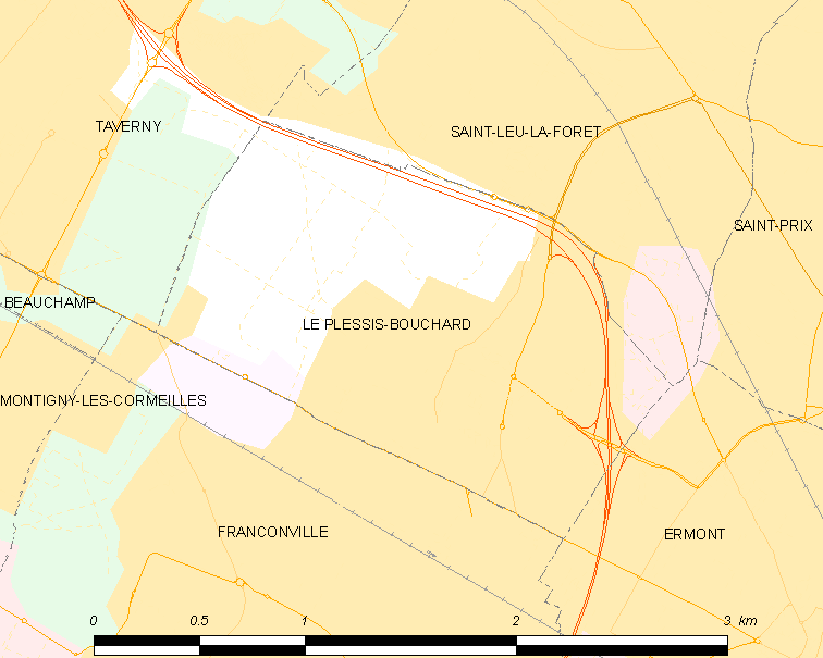 Map of French municipality Le Plessis-Bouchard